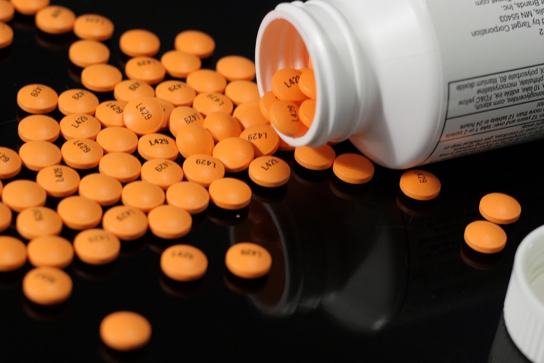 Generic regular strength enteric coated 325mg aspirin tablets, distributed by Target Corporation. The orange tablets are imprinted in black with "L429".